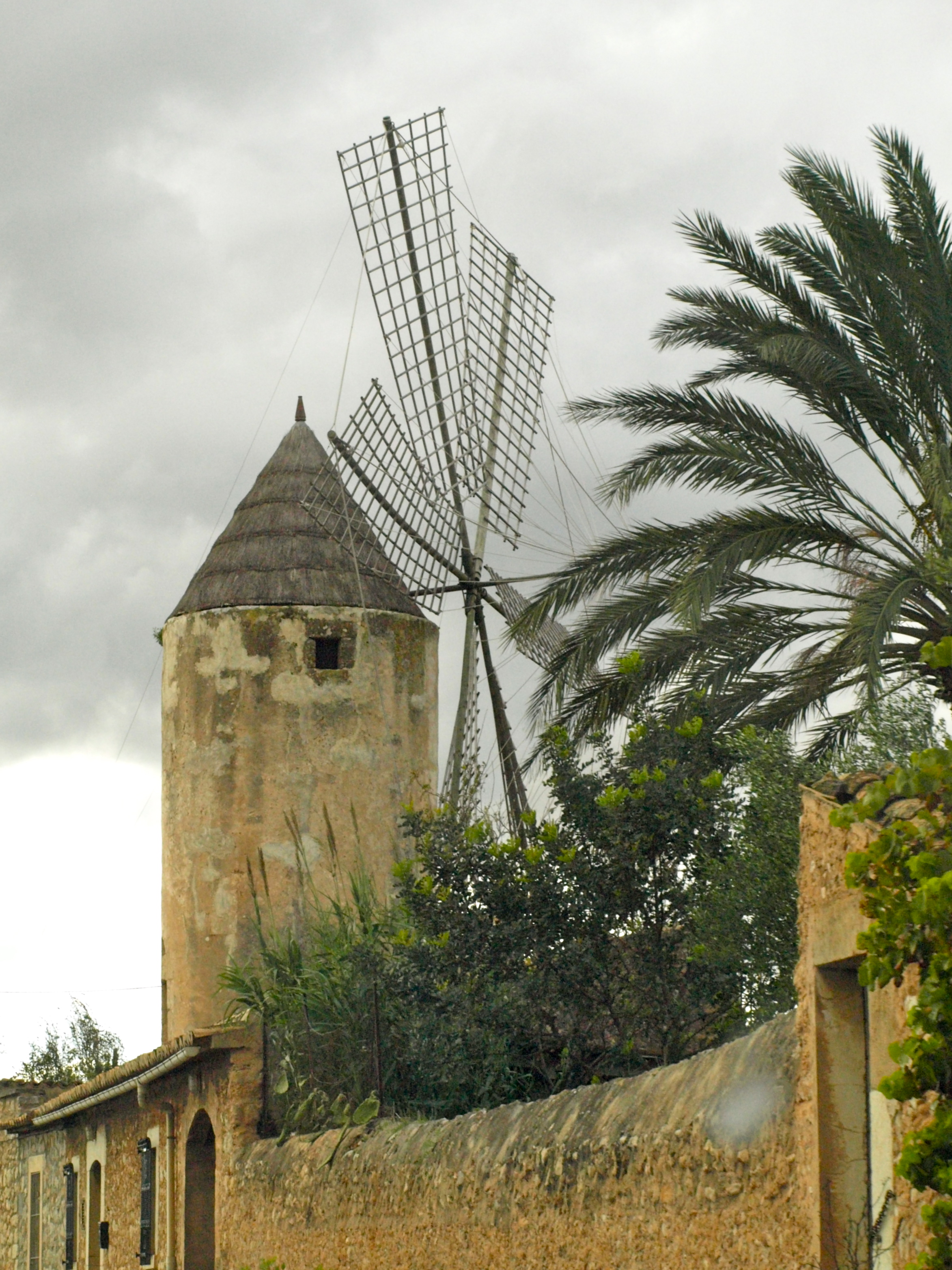 Binissalem wind mill Place Lloc/Place: Binissalem